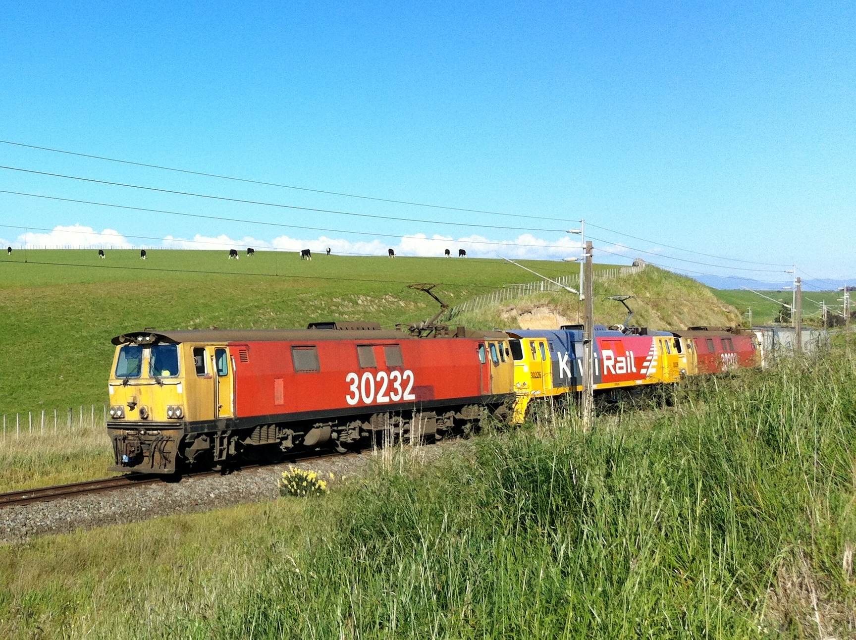 KiwiRail train on route from Feilding to Halcombe, and probably further.